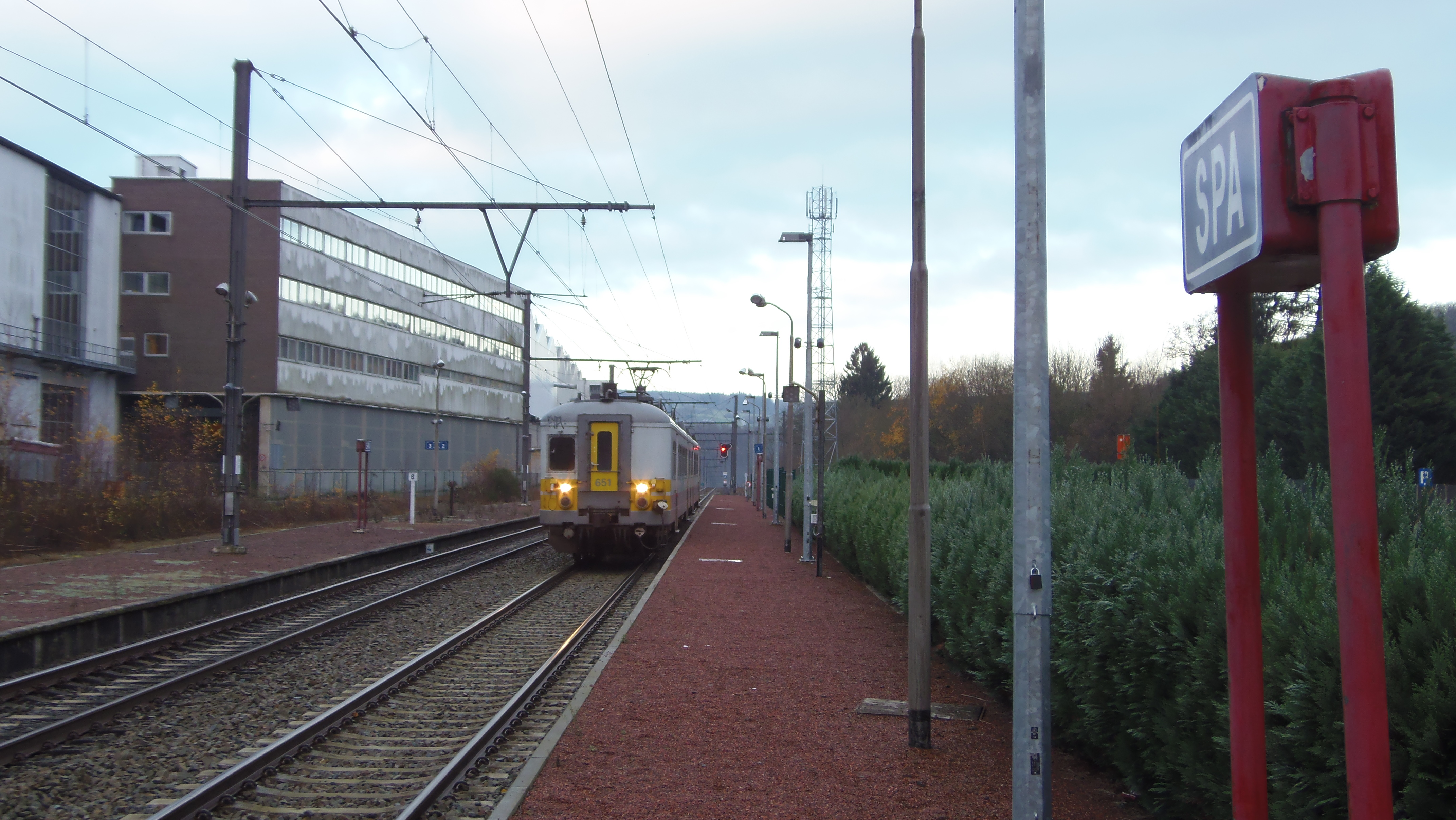 train station Spa, a train comes in